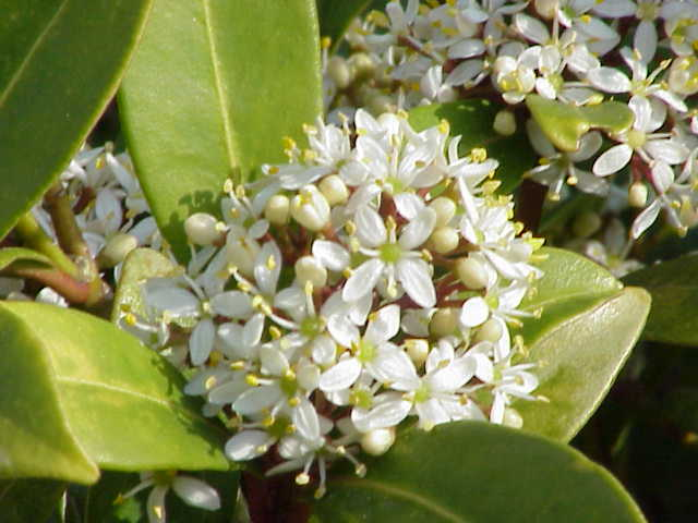 Species: Skimmia reevesiana Family: Rutaceae Image No. 2